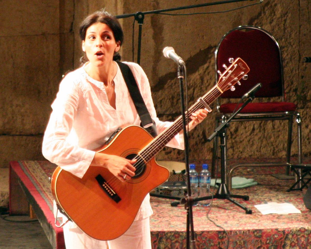 Souad Massi's concert 25th June 2007.